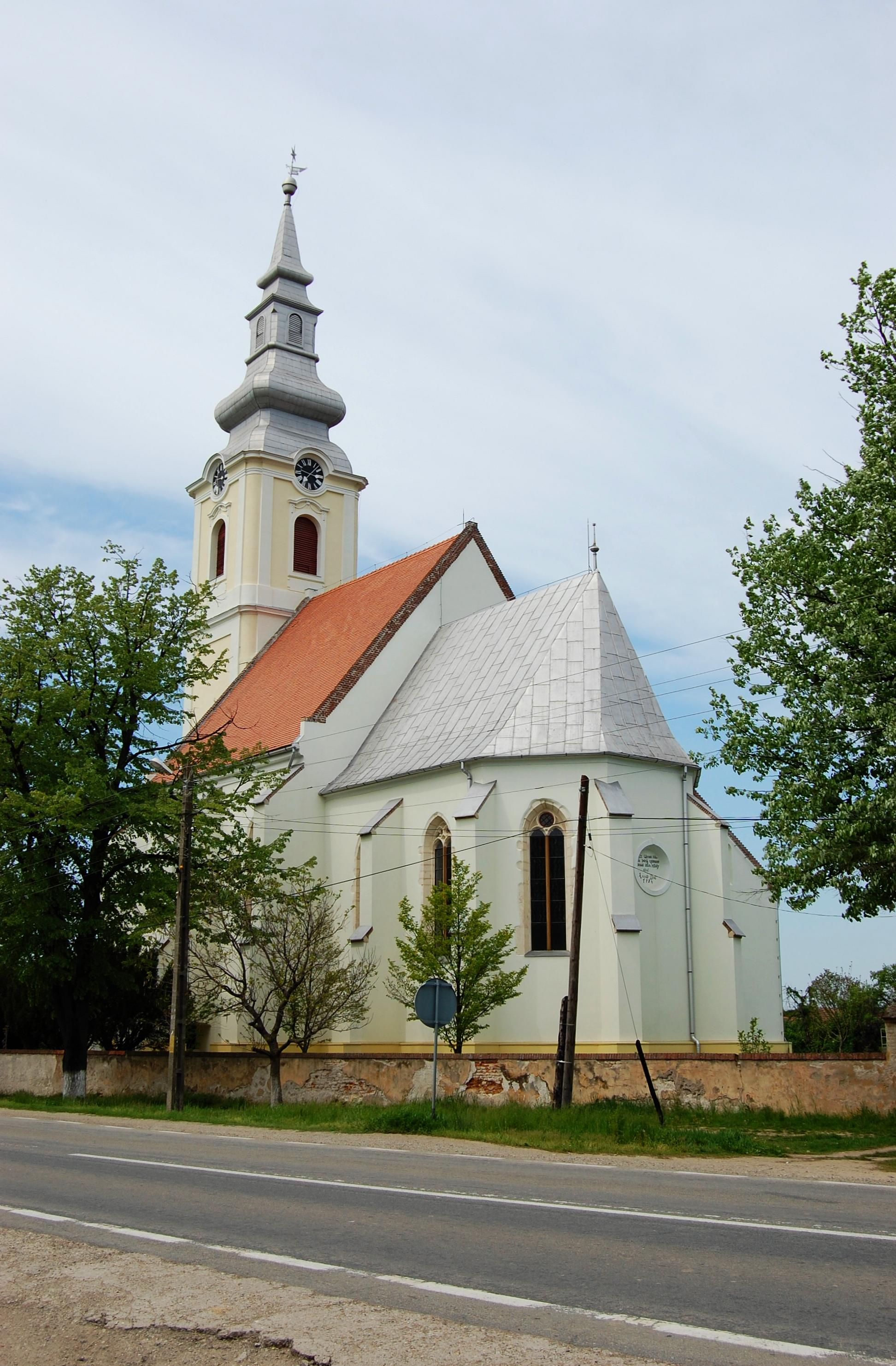 Calvinist church in Mezőtelegd/Tileagd, Romania